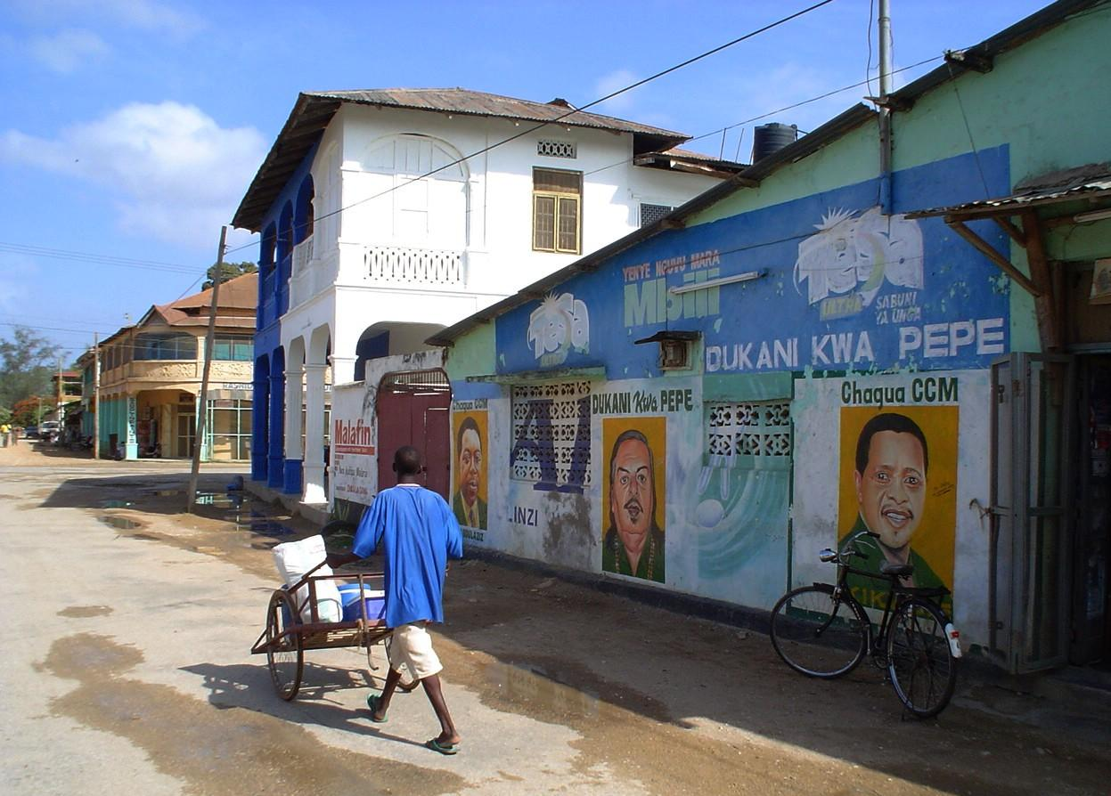 Scene in Uhuru Street, Lindi (Tanzania) with electoral murals from i.a. Jakaya Kikwete (on the right), who became president in 2005.